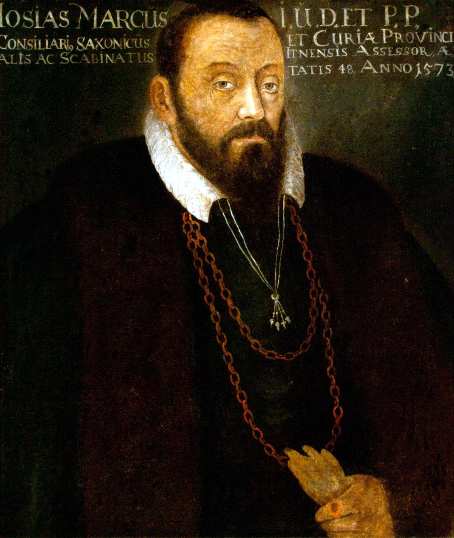 Josias Marcus (1524-1599) german legal scholar